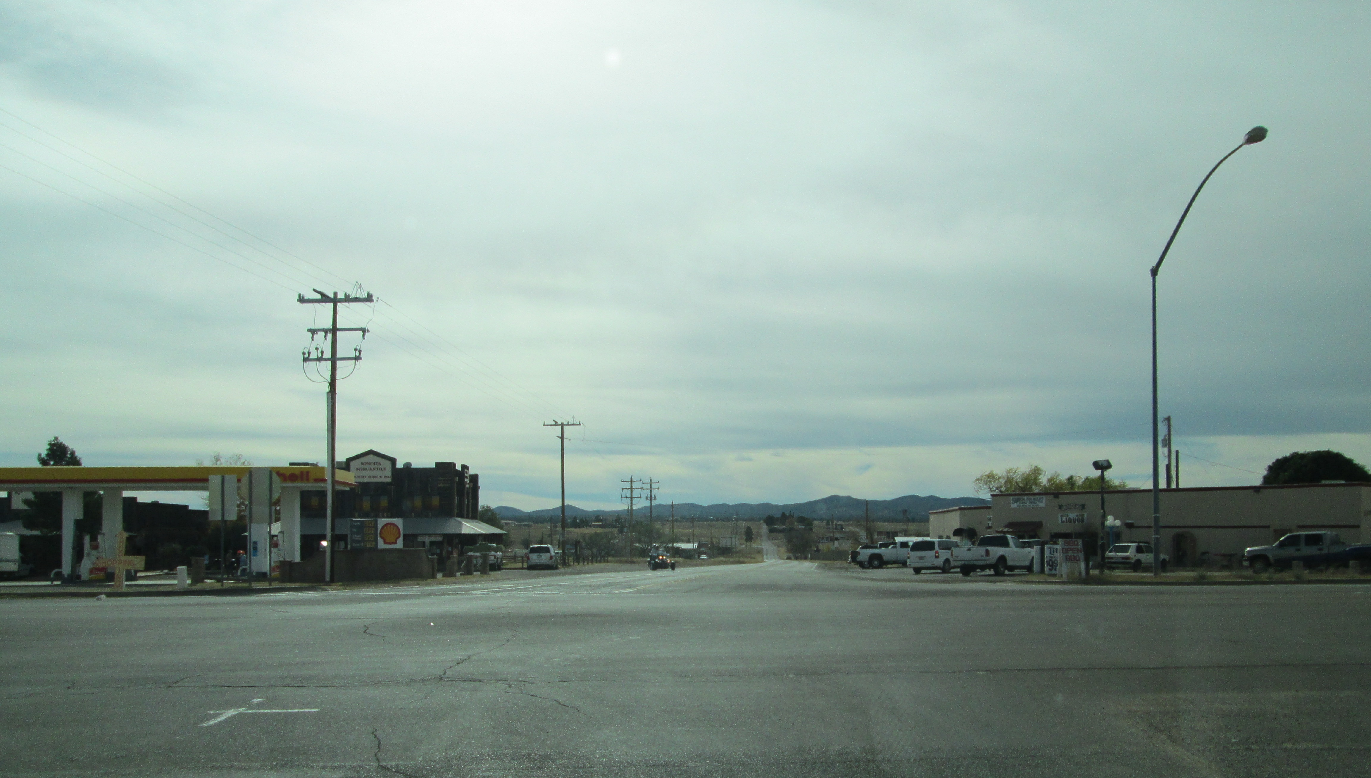 View of Sonoita, Arizona, from the main intersection in town.